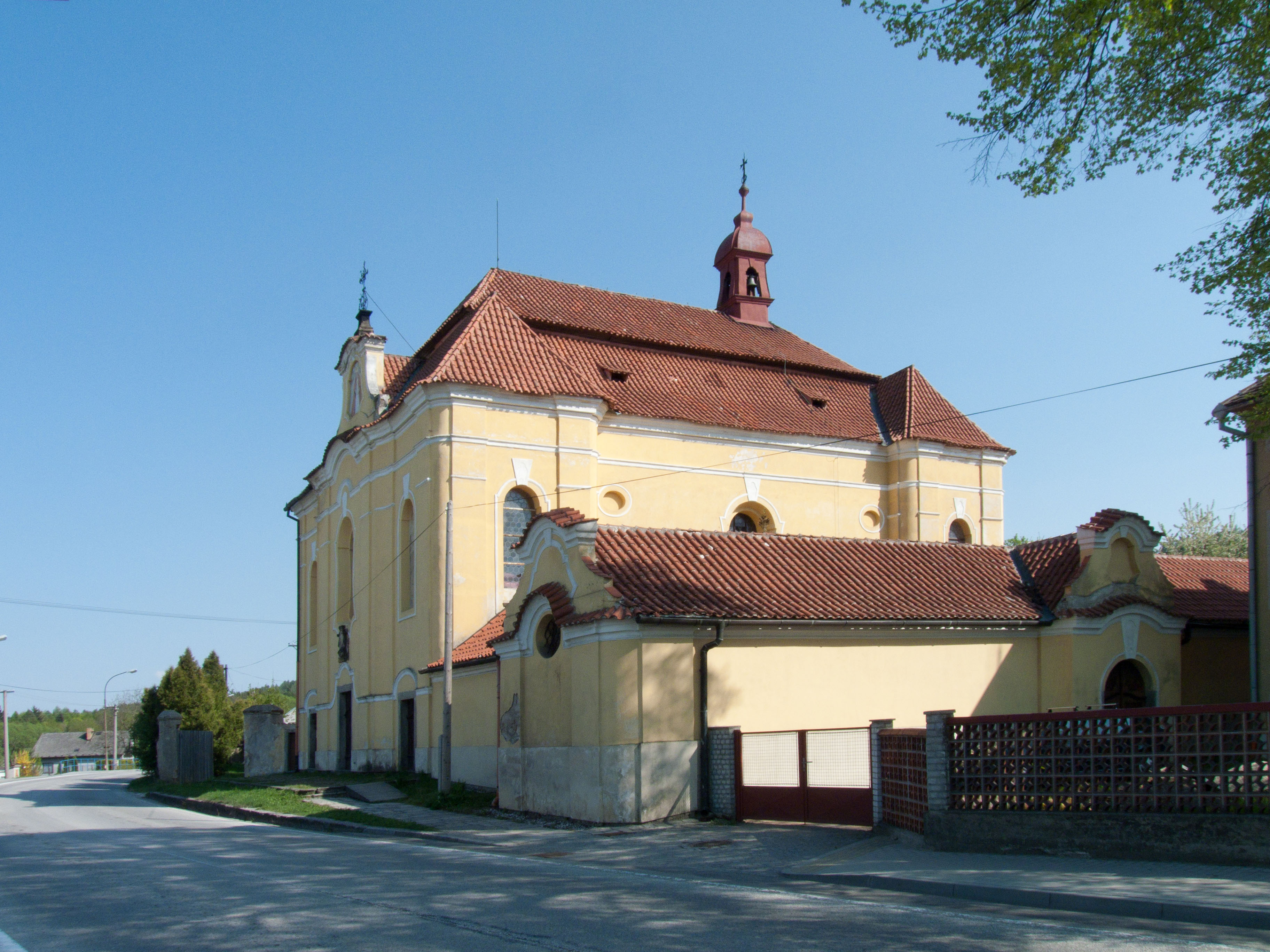 Virgin Mary Church in the village of Přední Ptákovice, part of the town of Strakonice, Czech Republic.